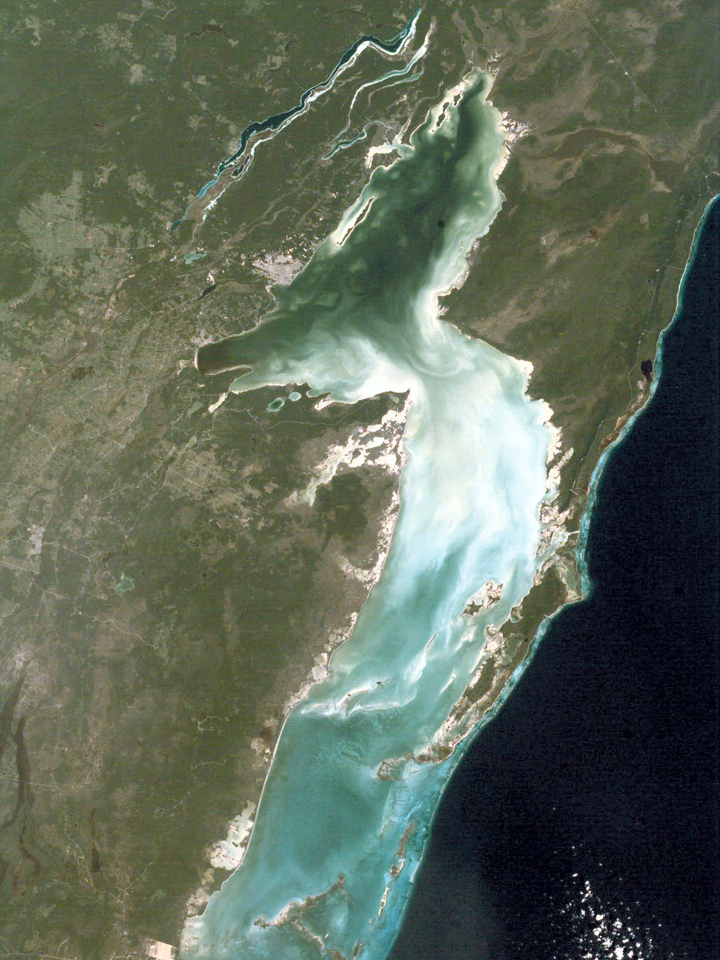 Satellite image of Chetumal Bay between Mexico and Belize